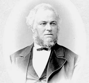 Hon. Stephen Richards, Q.C., Commissioner of Crown Lands, Ontario Legislative Assembly, Member for Niagara